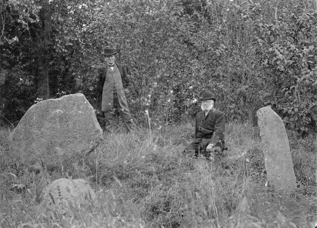 Men at rune stones (U 1128 and U 1127) at Alunda Church. The inscription on the rune stone to the right says: "Faste and Joger they had the stone raised in memory of their brother Trond." The inscription on the rune stone to the left (U 1128) is undeciphered.